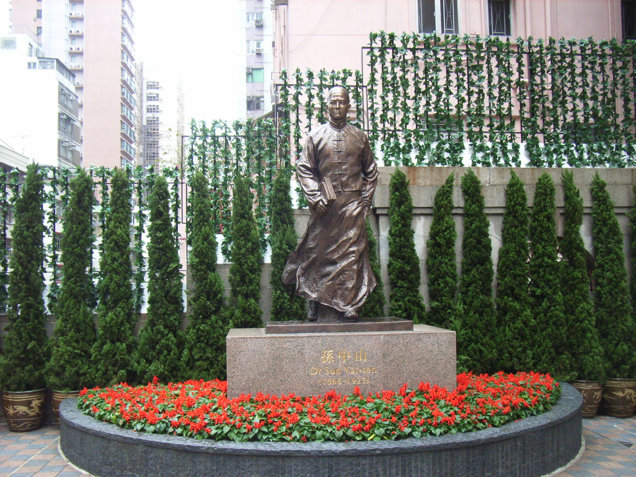 孫中山 全身像, Dr. Sun Yat-sen Museum 孫中山紀念館展品, Kom Tong Hall (甘棠第) at 7 Castle Road, Central, Hong Kong.